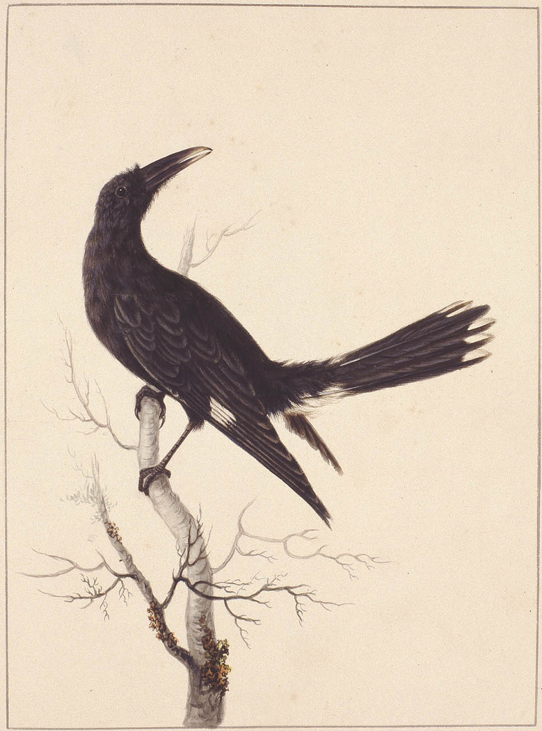 f. 30 : White-Vented Crow